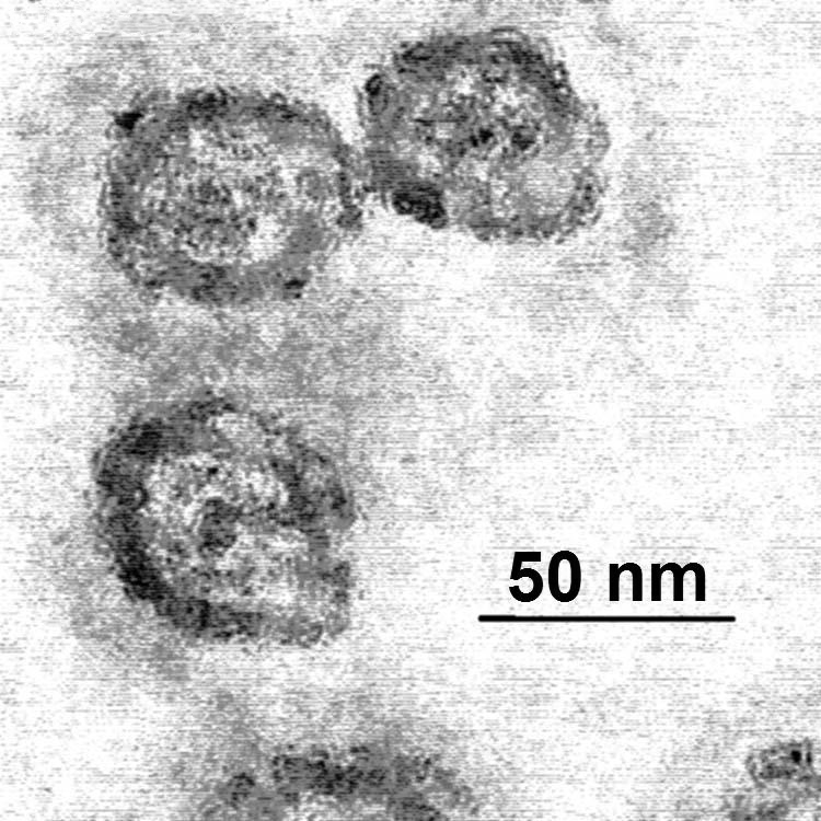 Transmission electron–micrograph of positively-stained particles that resemble the flaviviruses that cause hepatitis C infections, (nm = nanometer, which is one billionth of a metre)